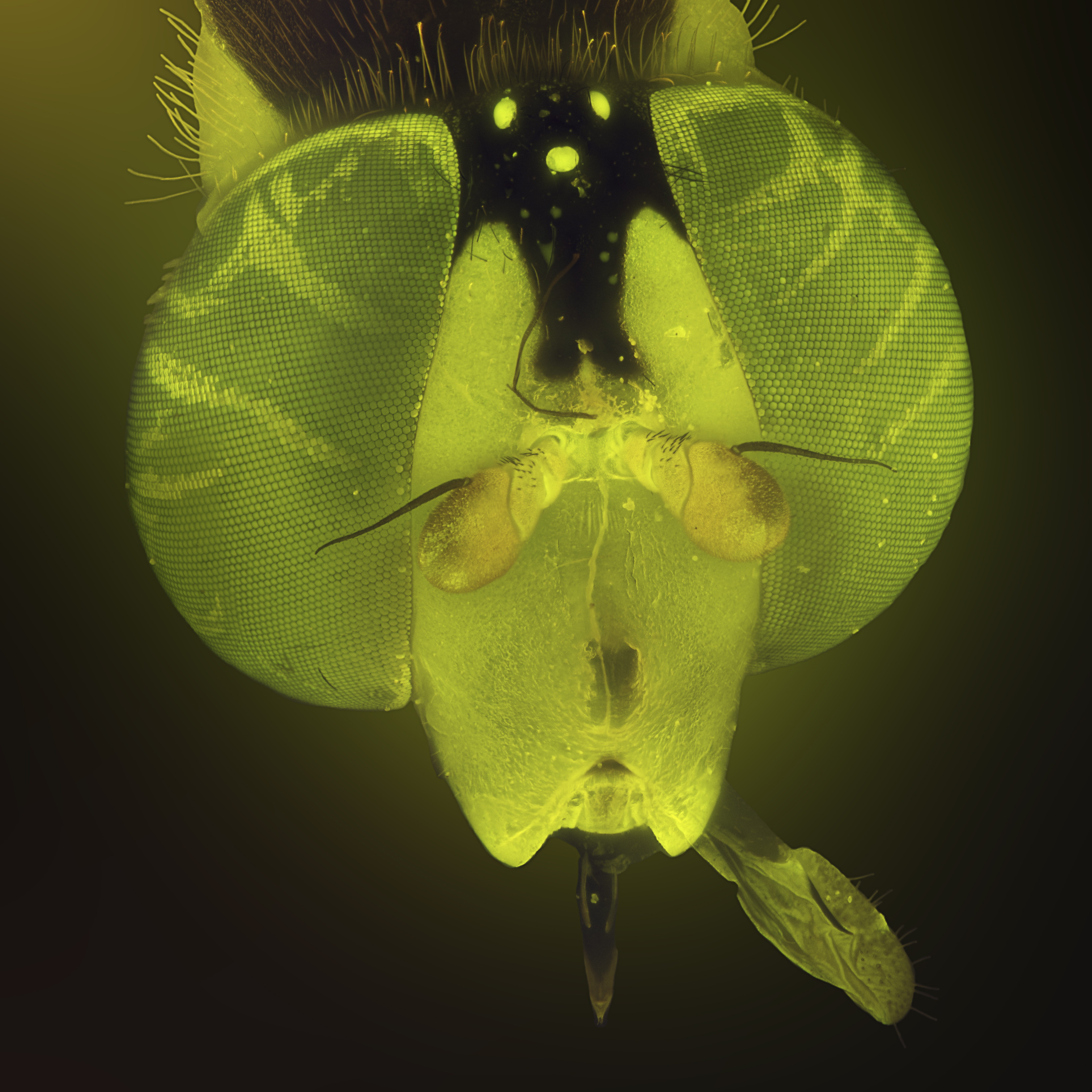 Dolichopodidae under a fluorescent microscope. Autofluorescence.